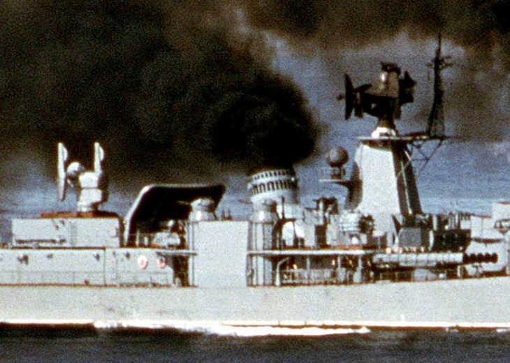 Armament of the Soviet large anti-submarine ship «Gremyashchiy».